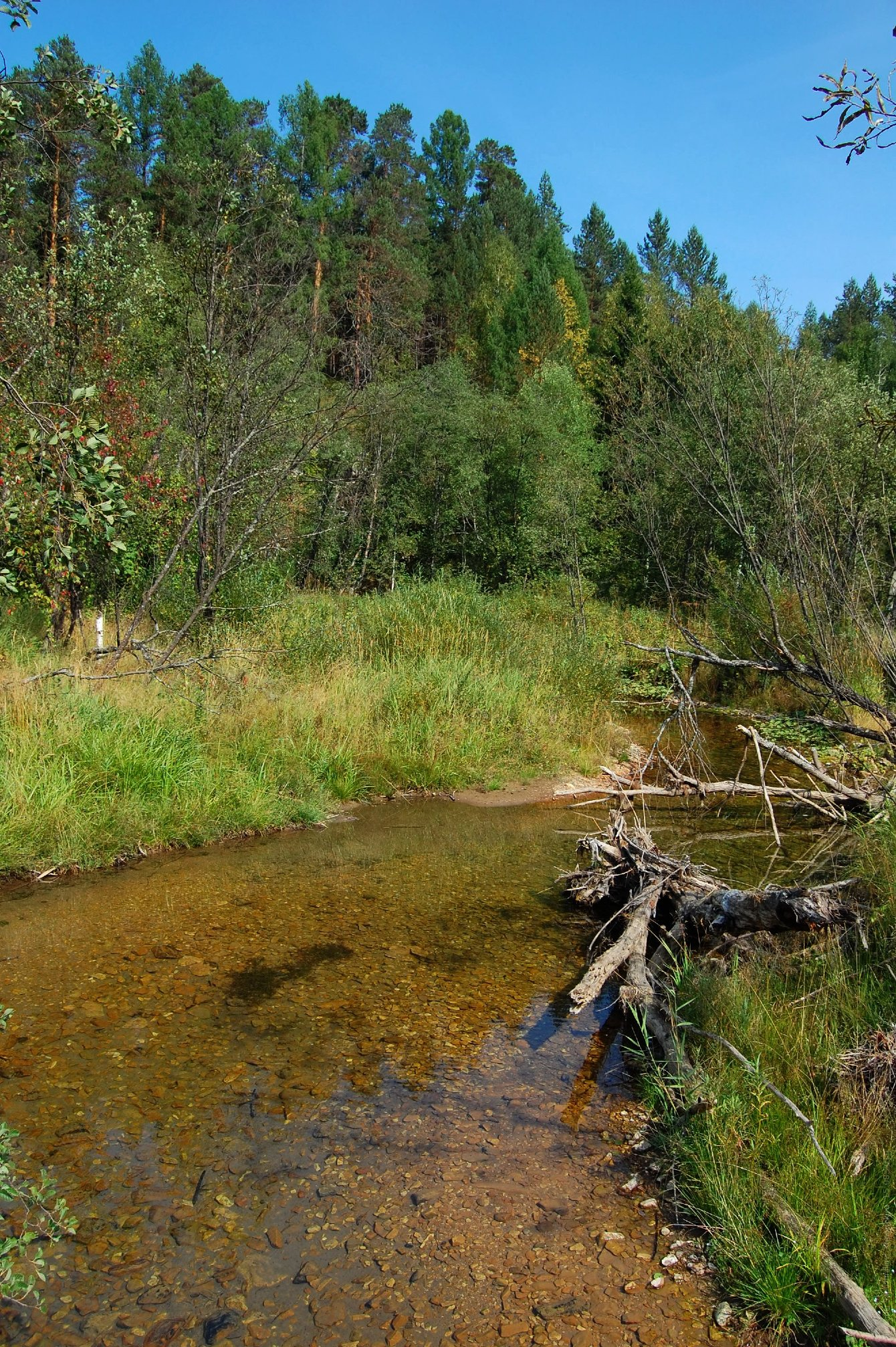 Sukhaya Shemakha River. Up-stream view from bridge.